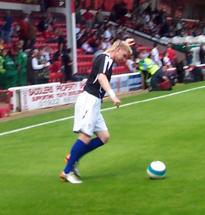 Gary_O'Connor, Scottish soccer player